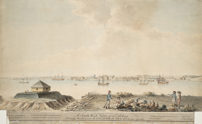 This is a 1790 watercolor, pen and ink, painting depicting Fort Saint-Jean around the time of the 1775 siege of the fort. The ship in the foreground is the HMS Royal George. From the Toronto Library description: View keyed (asterisk have been supplied in transcription to distinguish the two sets of check marks) in ink c.l. to c.r.: v / vv / vv[*] / a / b / v[*] / d. / c Inscribed in ink on mount l.l.: [cropped] Peachey Ensn. 60 Regt. From the Original View taken by J. Hunter. R. Regt. Arty.; l.c.: A South West View of St. John's / Shewing the Fort and the Detach'd Redoubt with the Blockhouse opposite,; l.l. (key): [v M]ontgomery's Mortar Battery. v ["v" added later to replace loss at start of line] / a. South Redoubt, and Commanding Officers Quarters. / b. North Redoubt, Magazine & Artillery Storehouses.; l.r. (key): c. Detached Redoubt, Officers & Soldiers Barracks. / d. Market Place. / v.[*] Inflexible. / vv[*] Royal George.